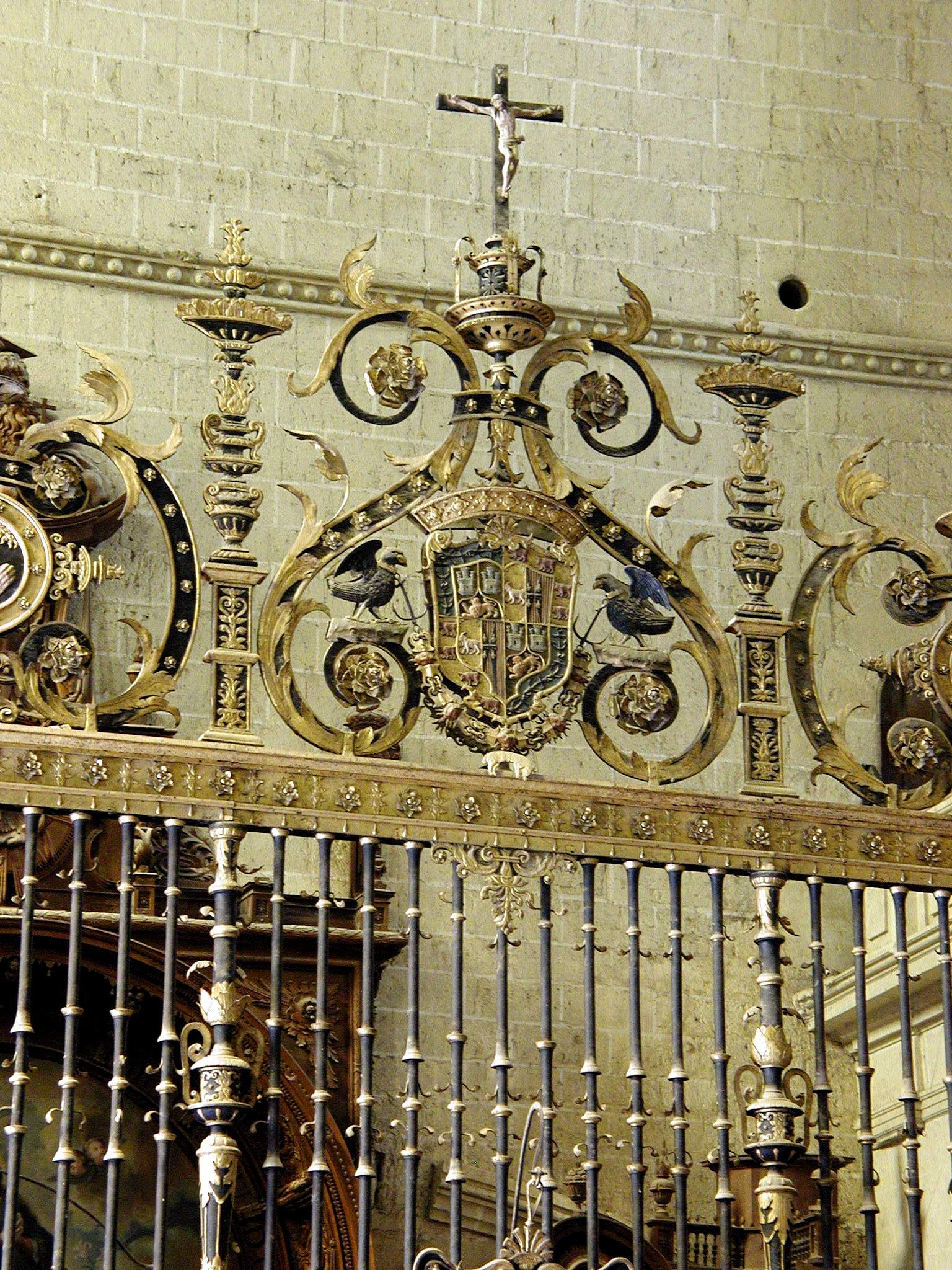 Iglesia de Santa María, rejería del coro